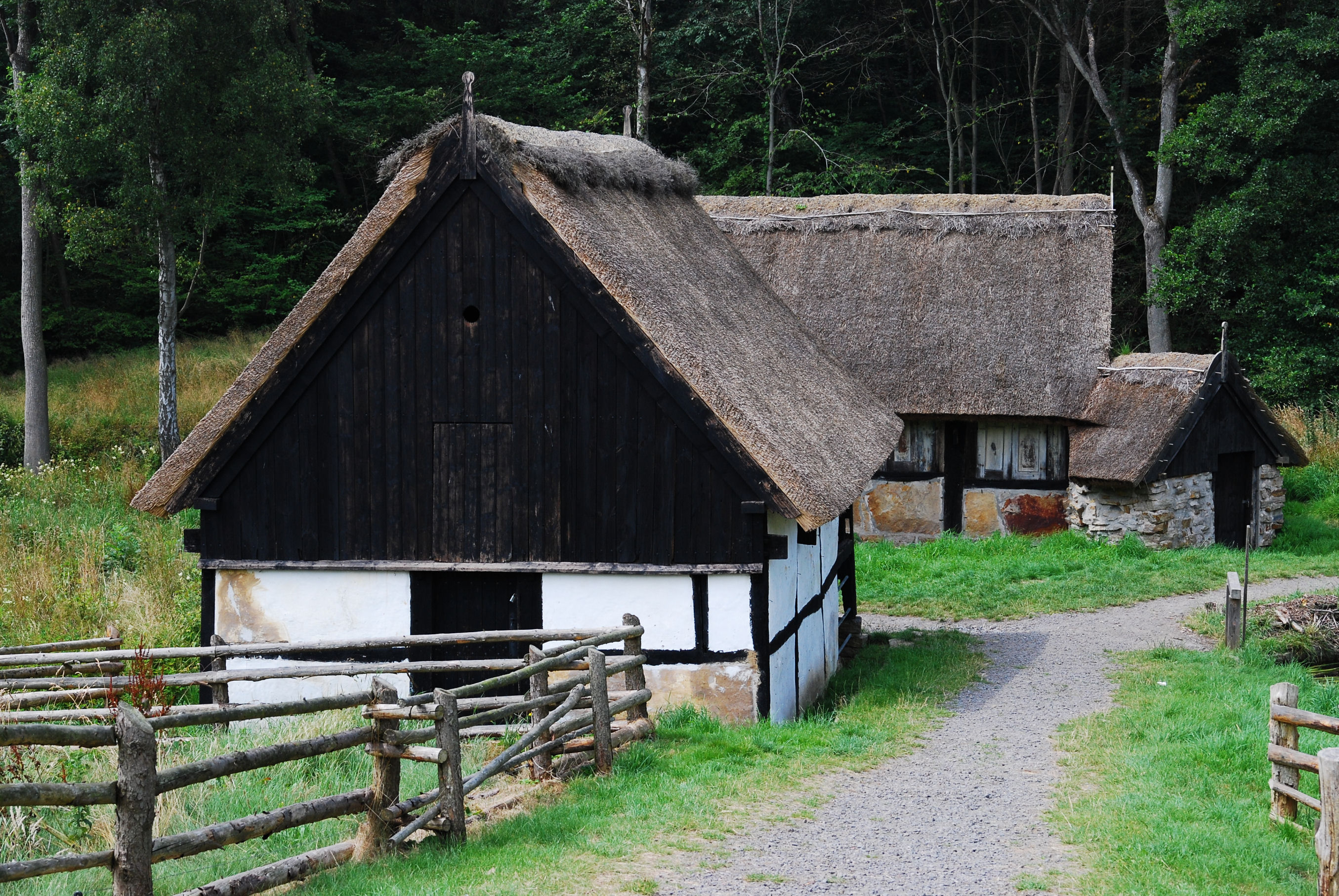 Slusegard water mill in Bornholm